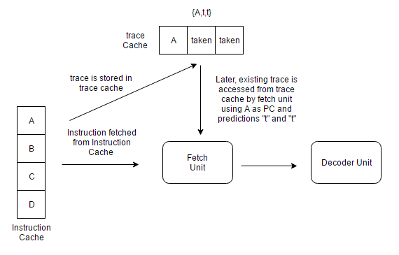 Concept of how trace Cache works